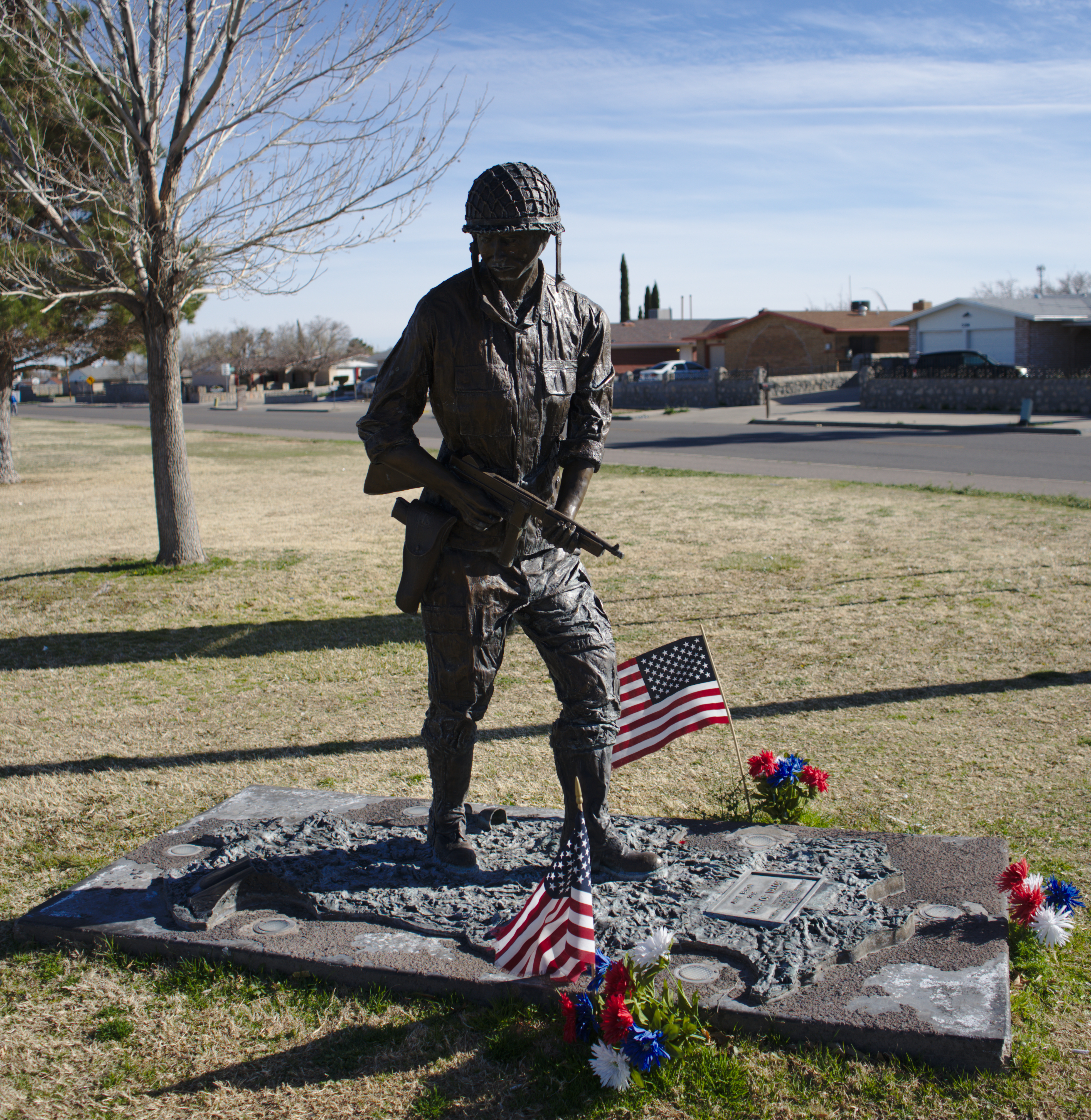 The Sculpture Days of Valor is found in Veteran's Park in Northeast El Paso